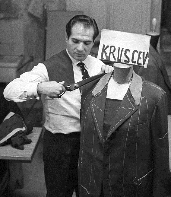 Italian fashion designer Angelo Litrico cutting fabric for a jacket for the secretary of the Communist Party of the Soviet Union Nikita Khrushchev. 26th October 1957